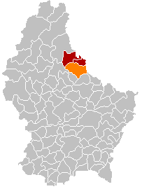 Own edit of Kanton ViandenLocatie.png